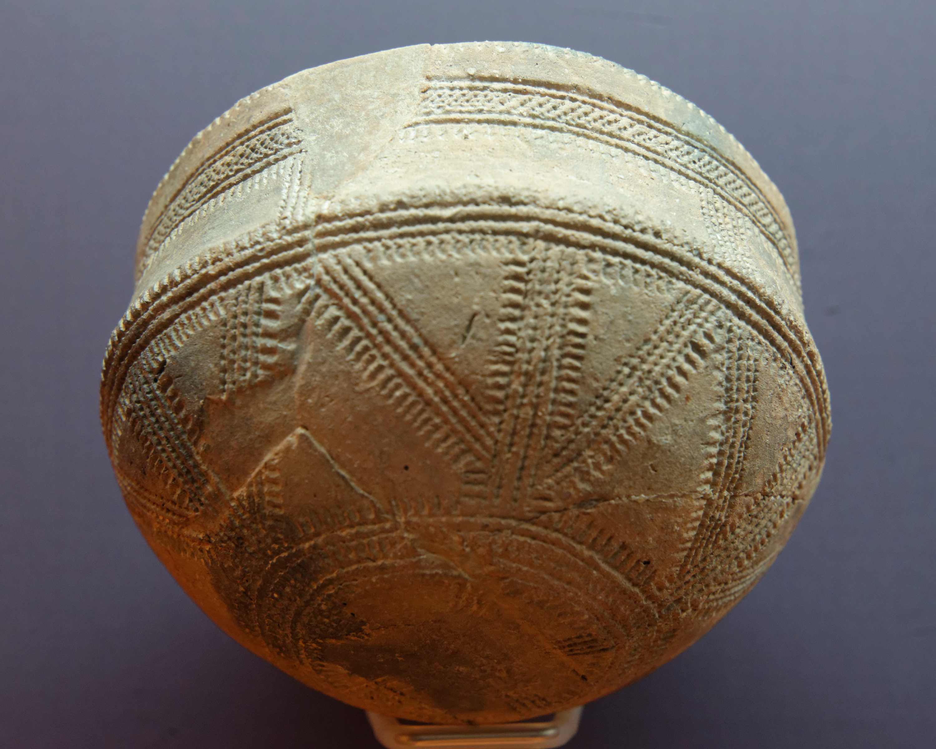 Carinated bowl with Epicampaniform decoration, from the La Riba settlement, Sant Just Desvern, Catalonia.